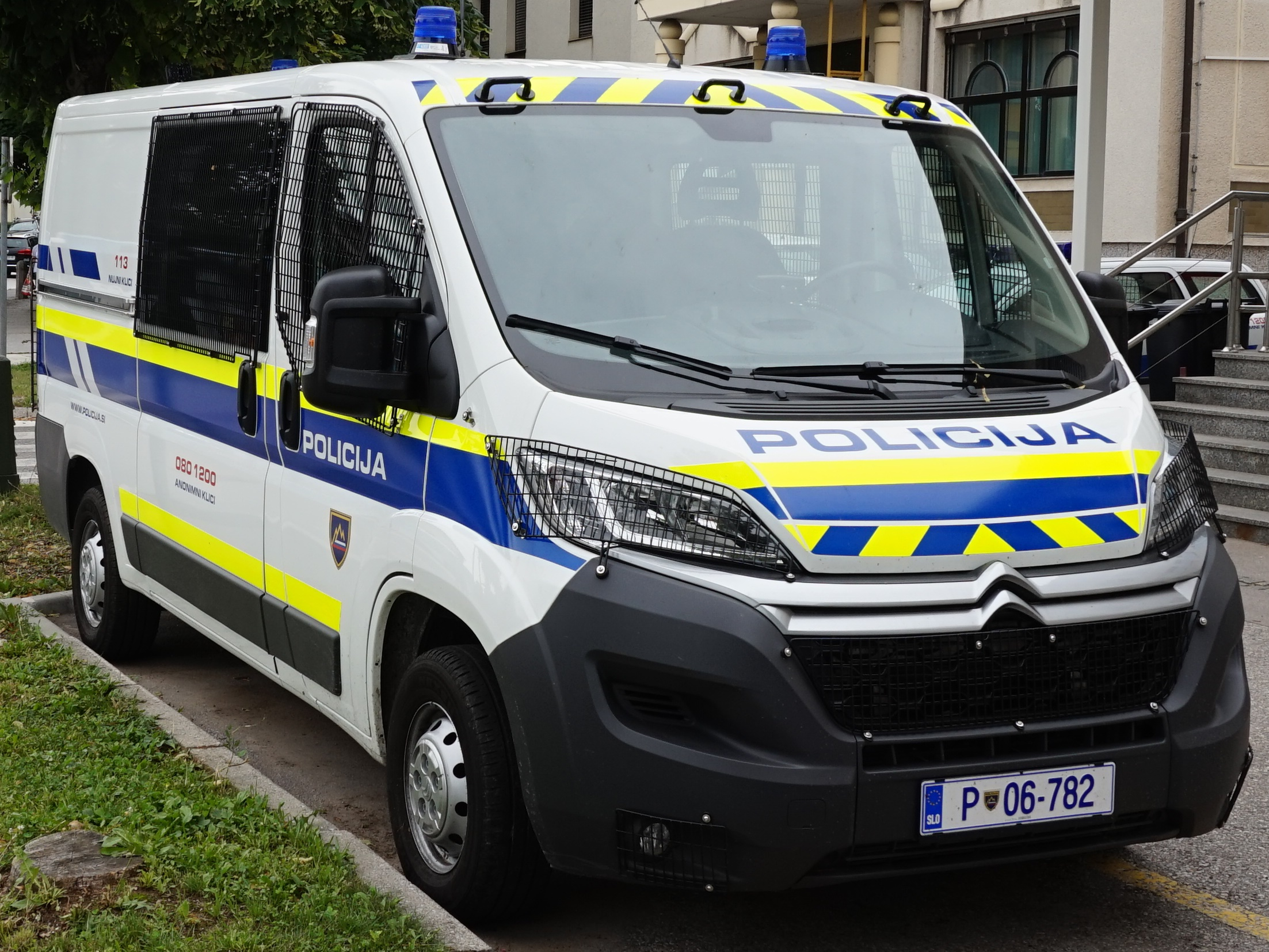 Slovene police van, Citroën (Jumper, I think)